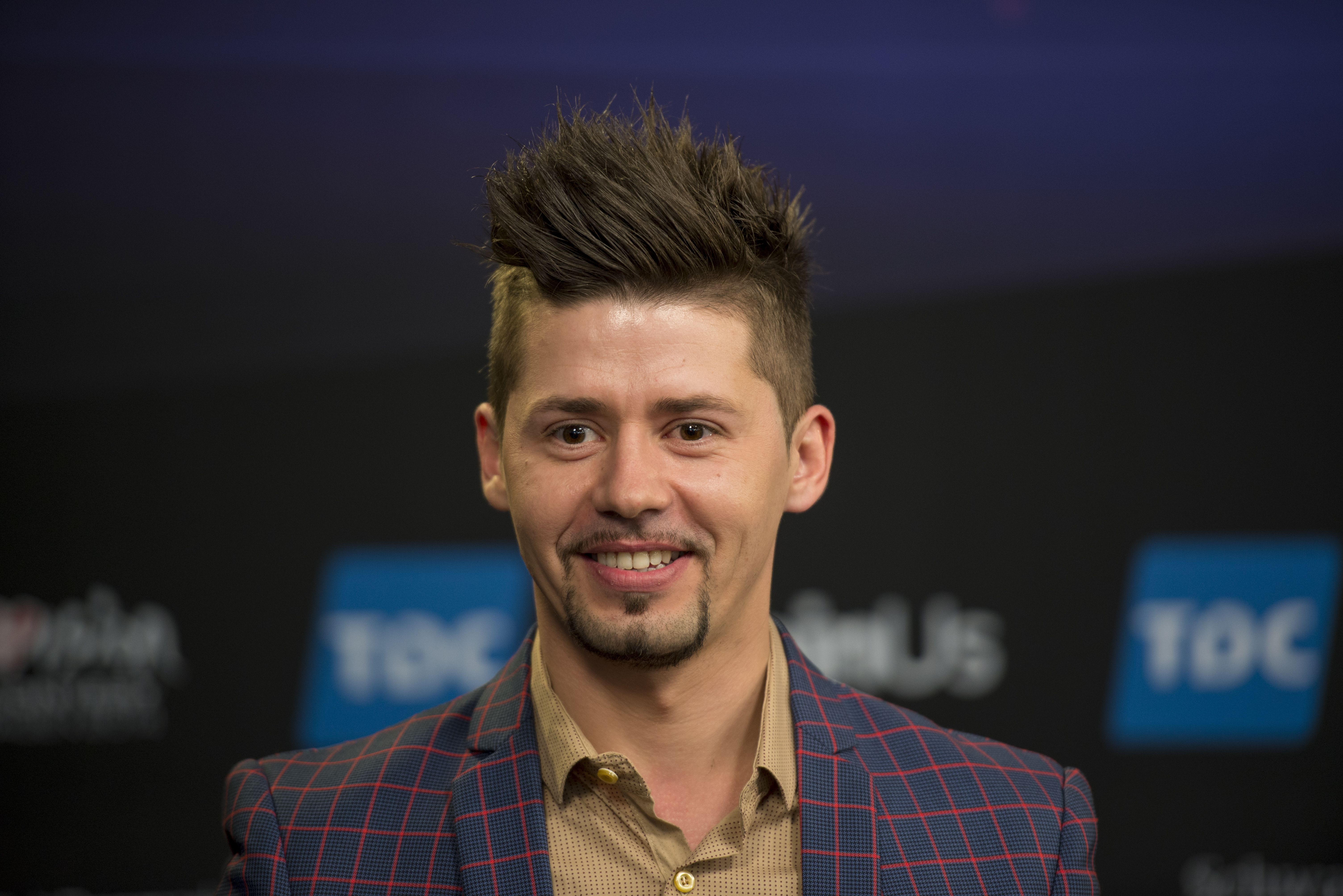 Teo at a Meet & Greet during the Eurovision Song Contest 2014 Copenhagen. (Help translate this text)